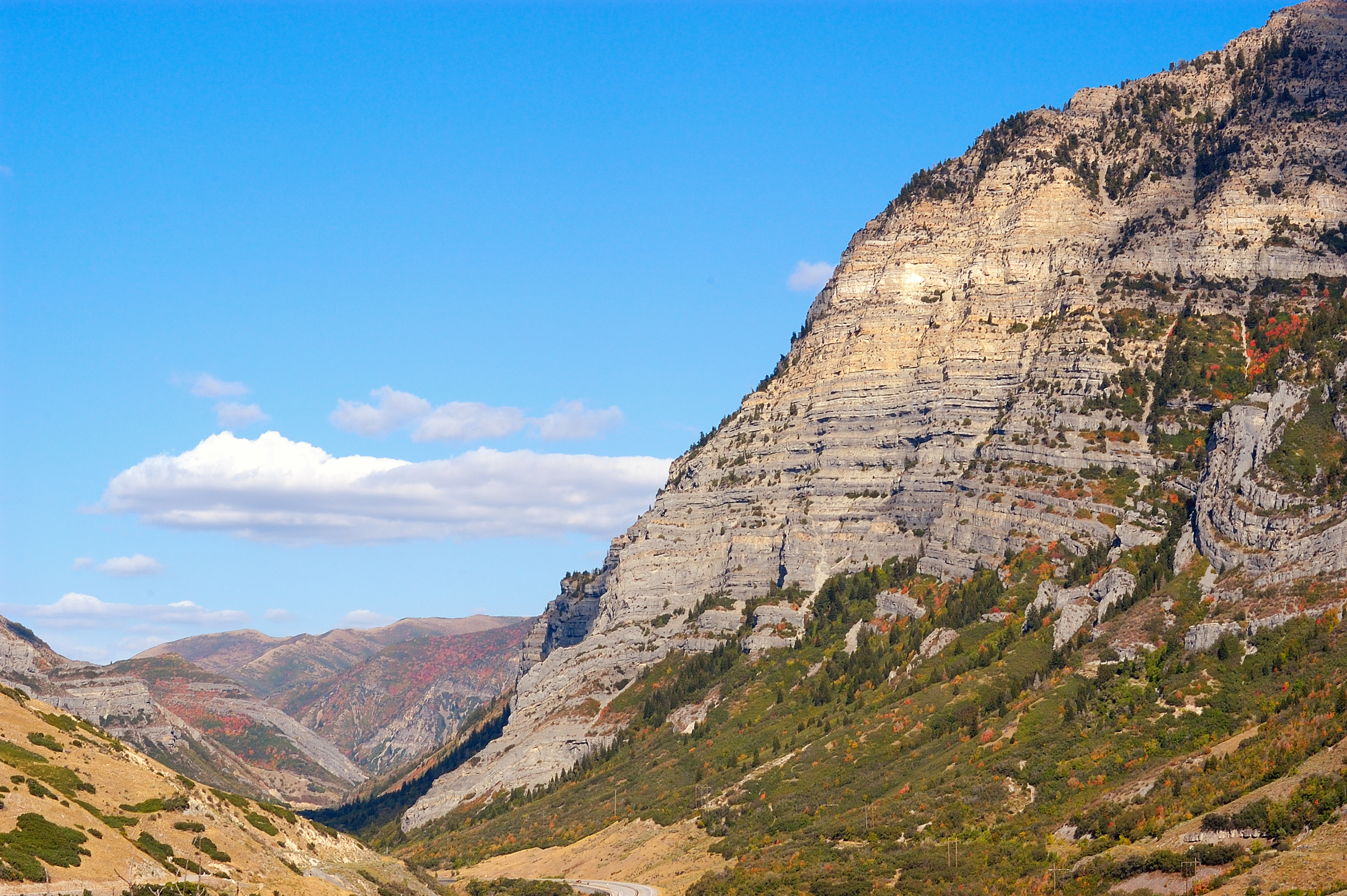 Provo Canyon, Fall 2006.